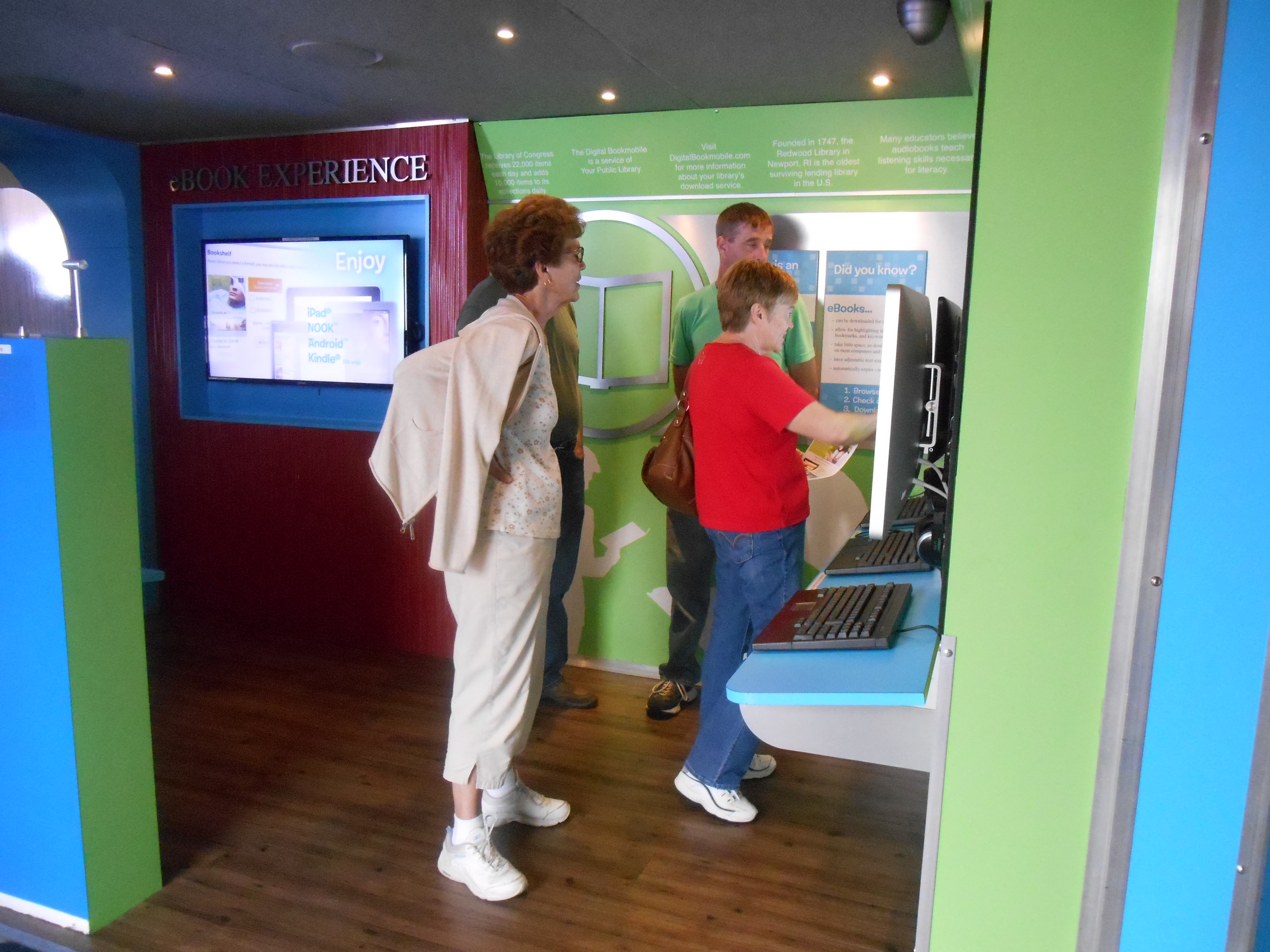 The Ohio Digital Library Tuesday, August 12th, 2014-Wood County District Public Library, Bowling Green, OH Discover eBooks & more at